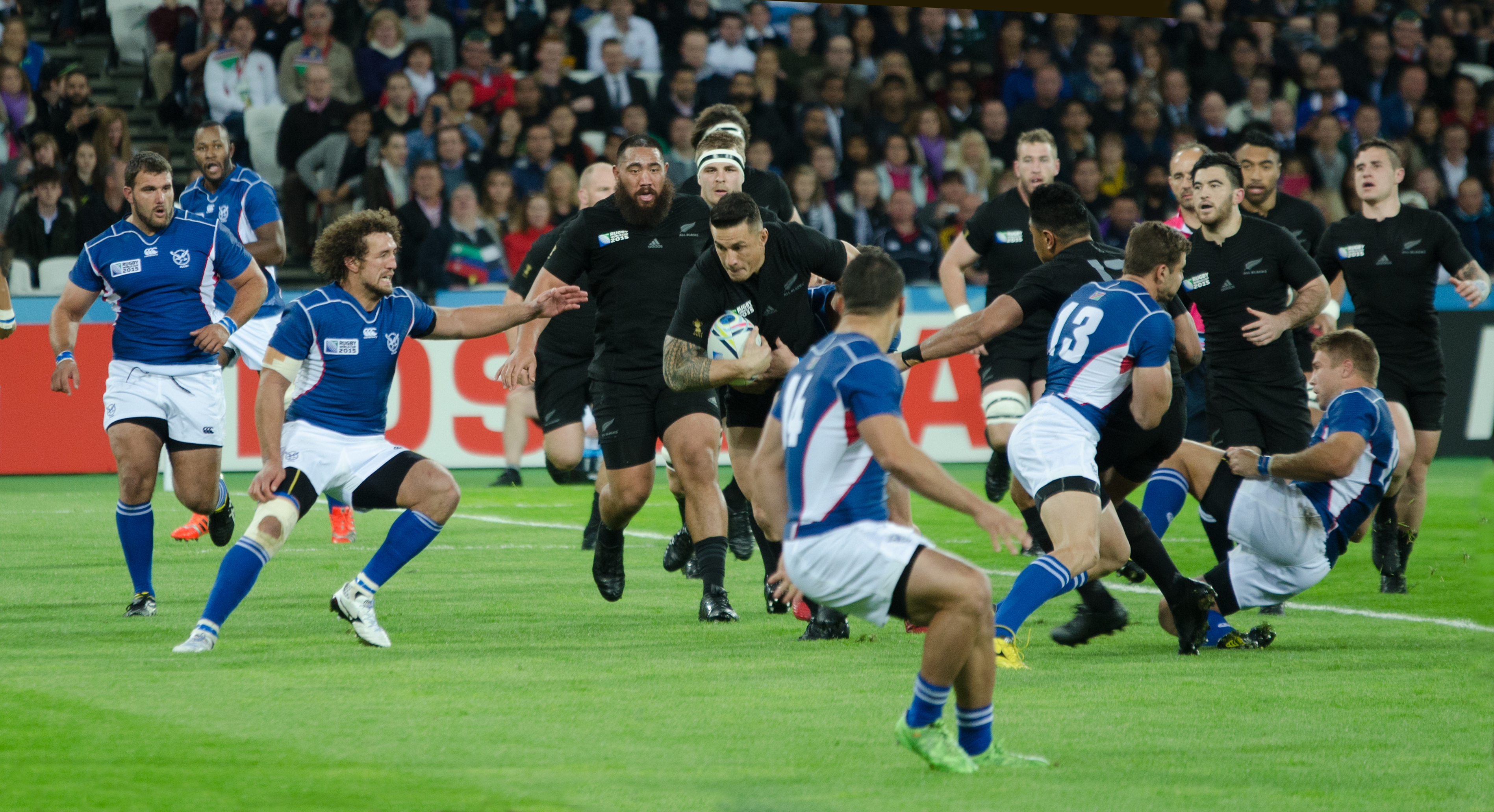 Game between New Zealand and Namibia in the 2015 Rugby World Cup at Olympic Park.